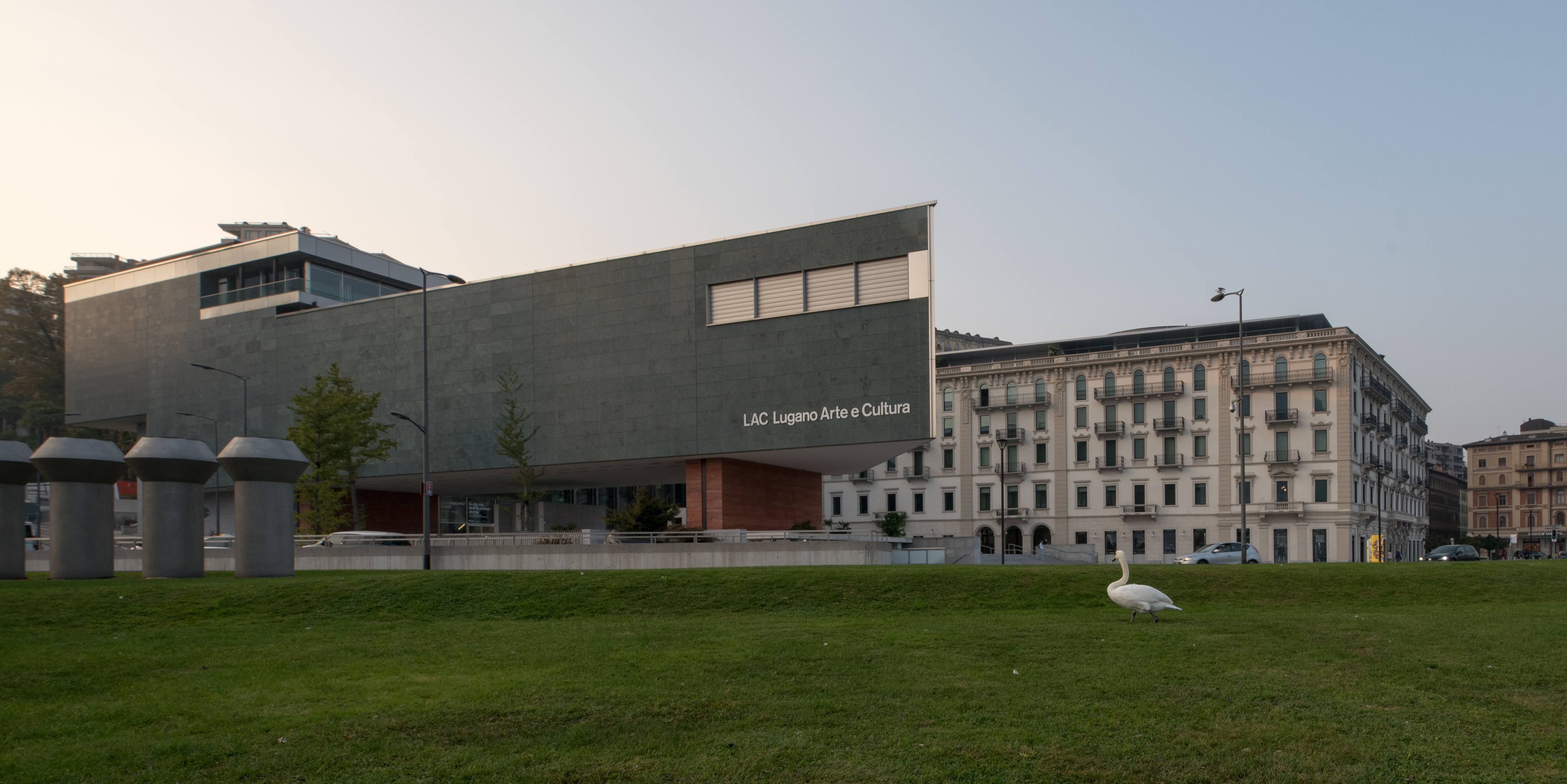 Lac Lugano Arte e Cultura